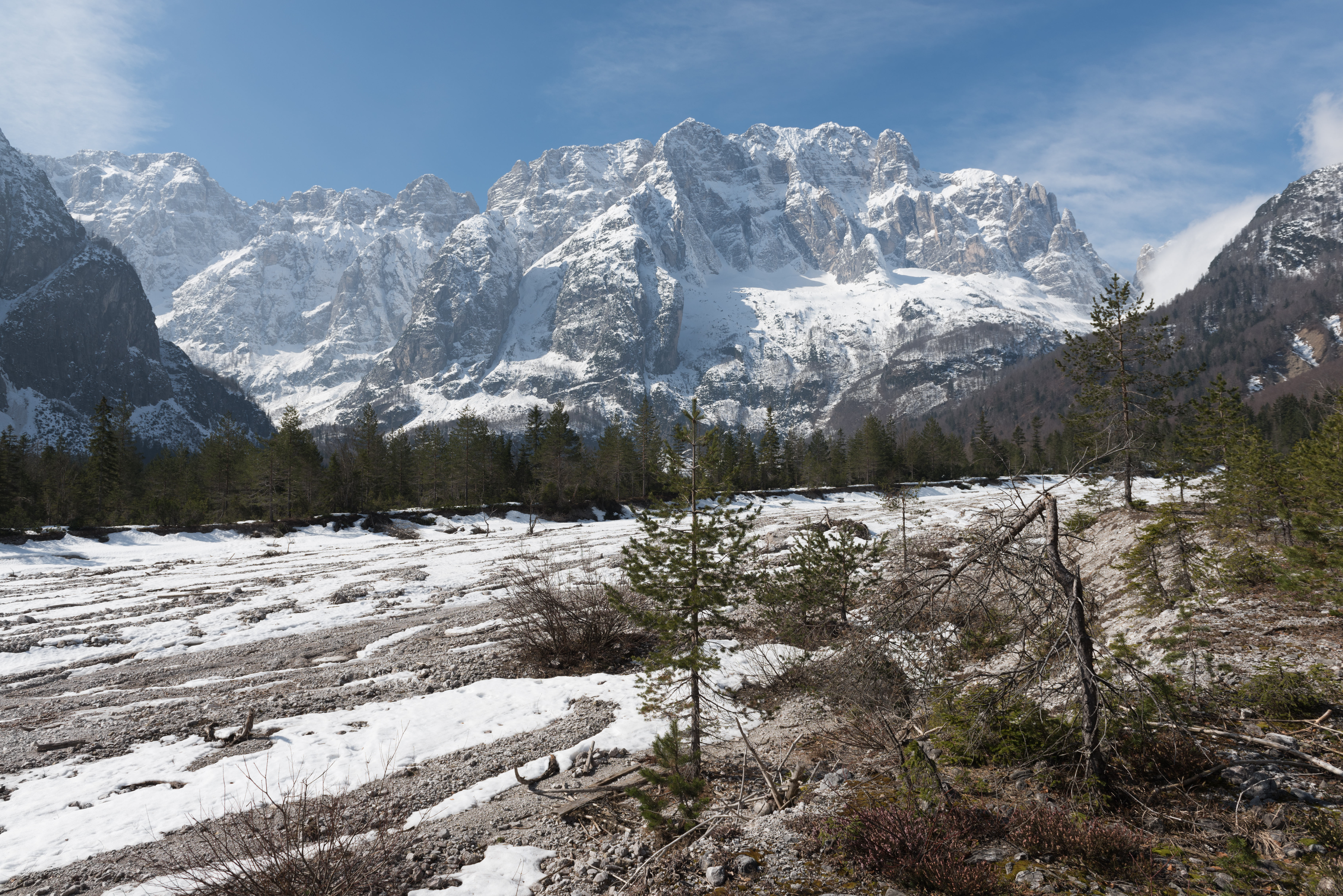 Northeastern view from Saisera valley at the Jôf di Montasio, Valbruna, municipality Malborghetto-Valbruna, province of Udine, region Friuli-Venezia Giulia, Italy, EU